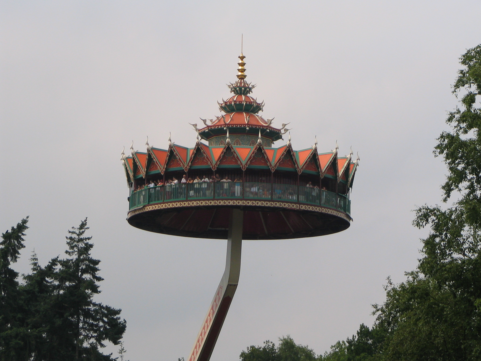 "Pagode" in Dutch amusement park "Efteling"